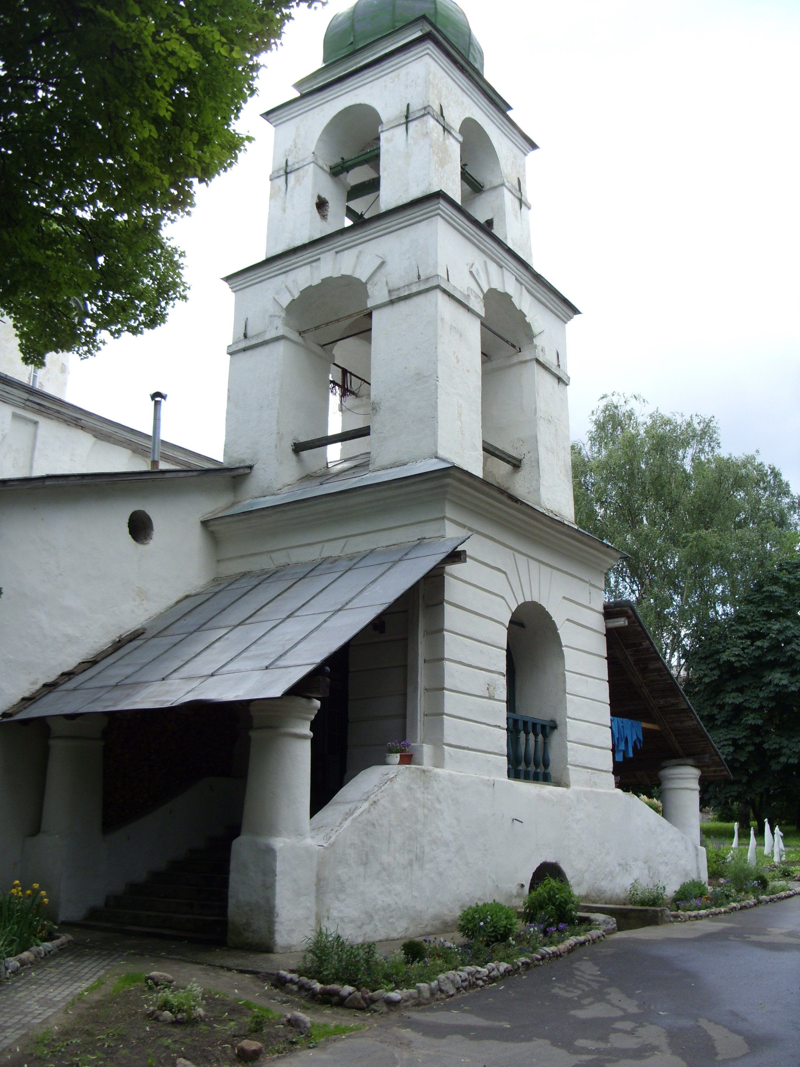 Pskov Anastasii